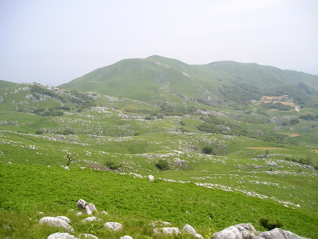 view of Hirao-dai